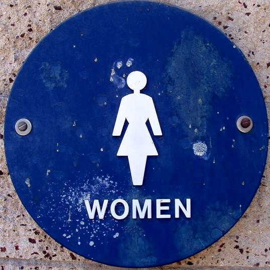 I photographed this picture from a public restroom. It is a female symbol for the women's restroom. I intend to use it on the toilet article to show the two commonly used male and female pictograms on public restrooms in the United States--Dark Tichondrias 08:02, 12 July 2006 (UTC) For variant version (more standard AIGA symbol), see Image:Toilet women.svg .